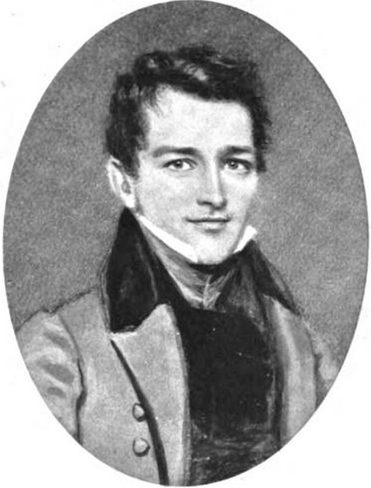 Portrait of Philip Hamilton, oldest child of Alexander Hamilton, captioned "Philip Hamilton (The First) – Age 20," from a book by his nephew Allan McLane Hamilton. Because Philip Hamilton died in 1801 at age 19, the caption appears to identify the illustration as a posthumous portrait, likely painted in 1802 for his family.